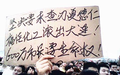 Dalian, China demonstrators